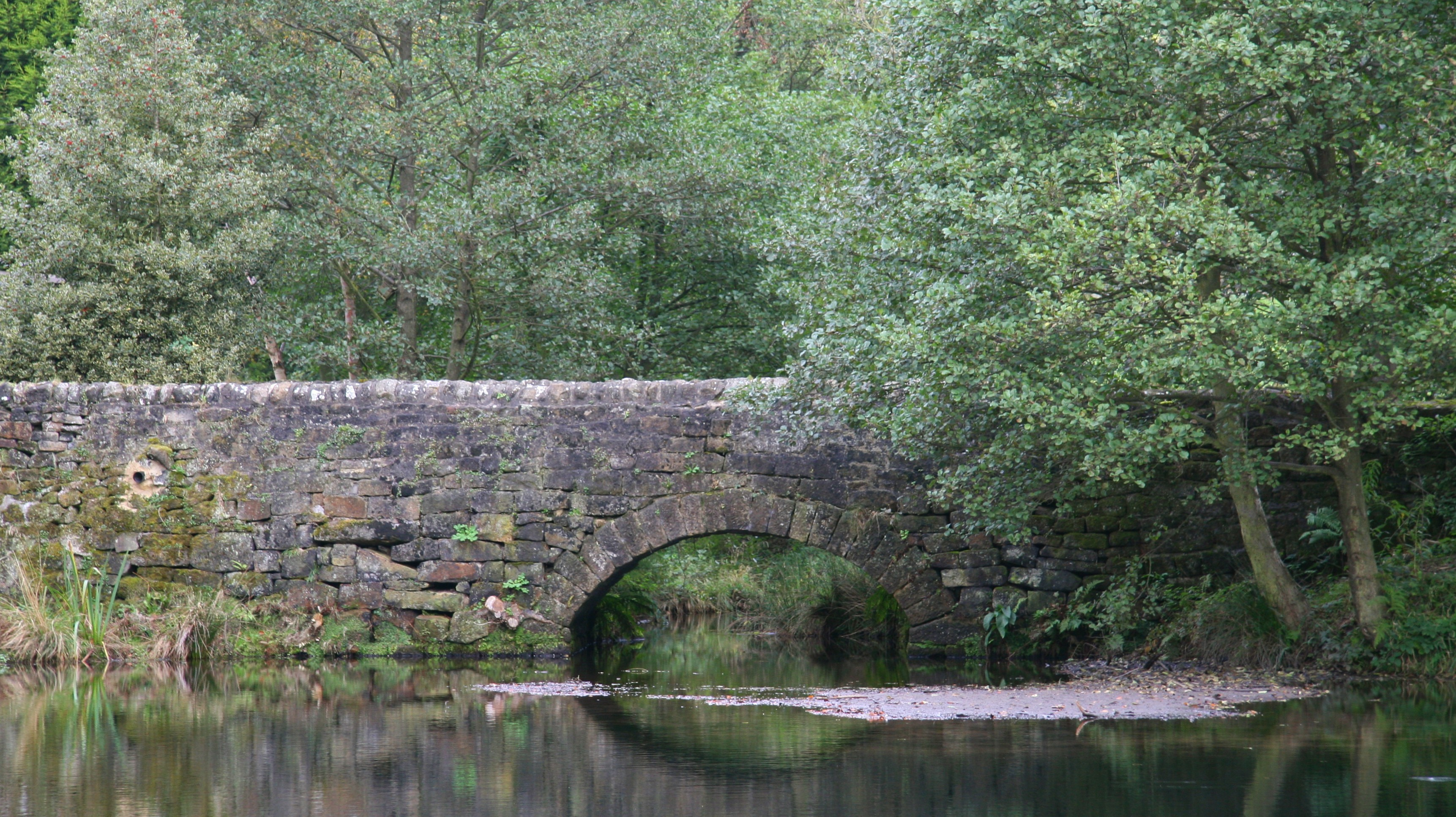 Bridge carrying Oaksedge Lane over Bentley Brook (Lower reservoir) The photograph is of the bridge carrying Oaksedge Lane over Bentley Brook as it enters the reservoir. Return to the photographs of the 583773.